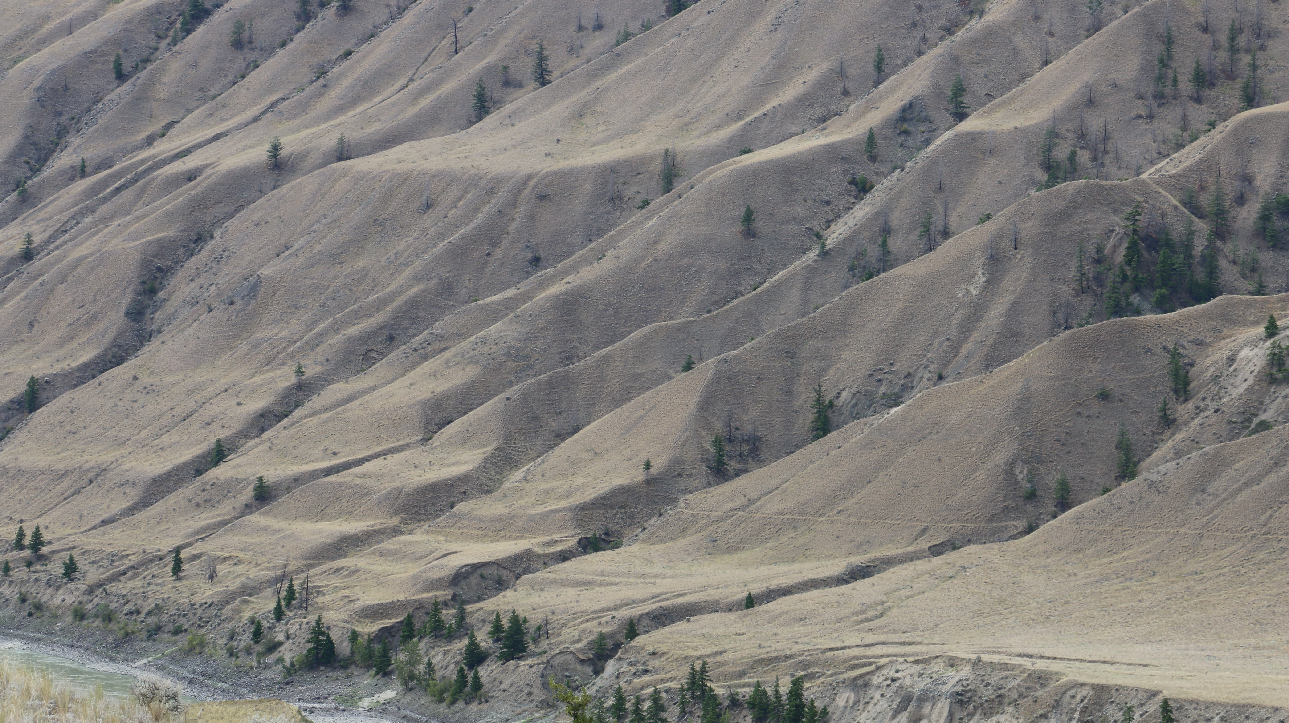 Bunchgrass grows on benchlands above the Fraser River in Churn Creek Protected Area in British Columbia, Canada.